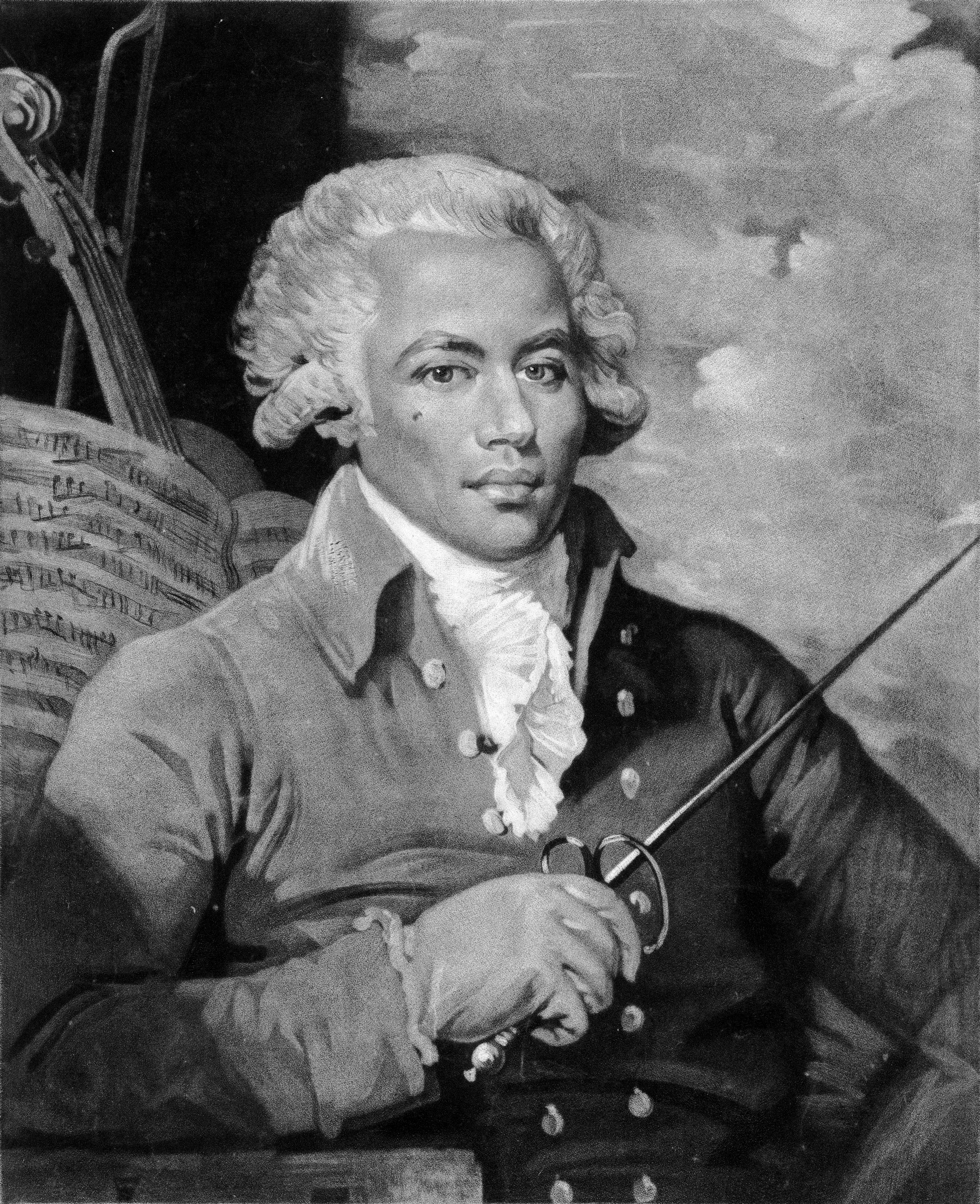 Chevalier de Saint-Georges (1745-1799) was one of the earliest musicians of African ancestry in the world of European classical music.